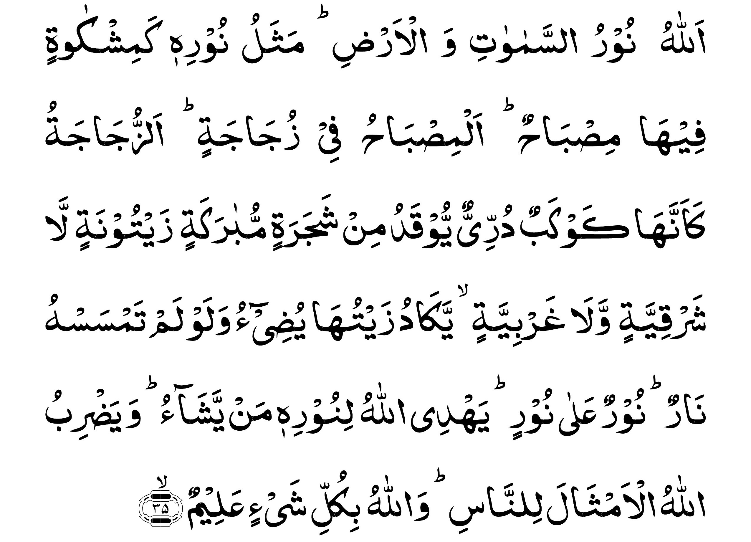 024000 An-Nur UrduScript